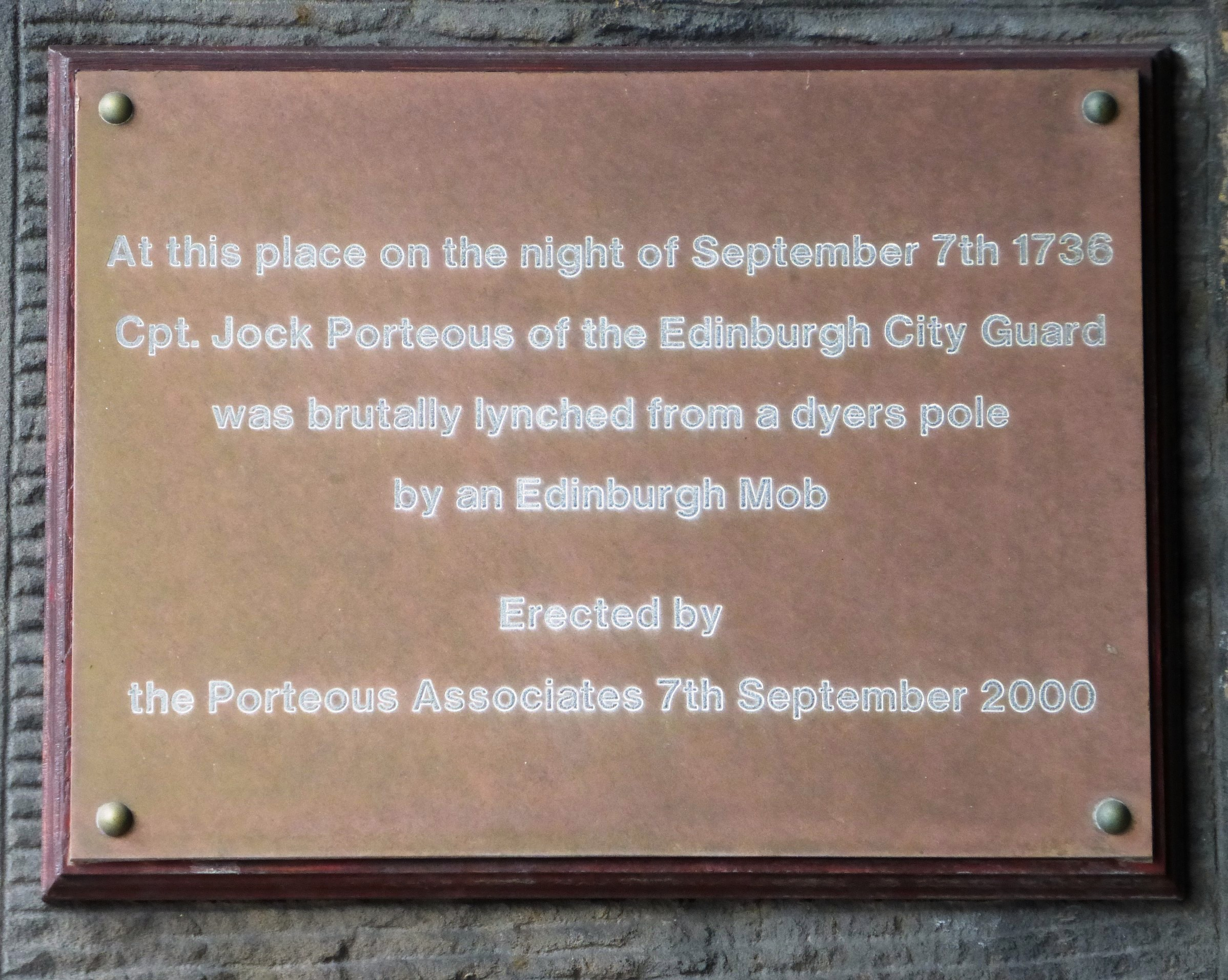 Site of the lynching of Captain Porteous of the Edinburgh City Guard, Grassmarket, Edinburgh